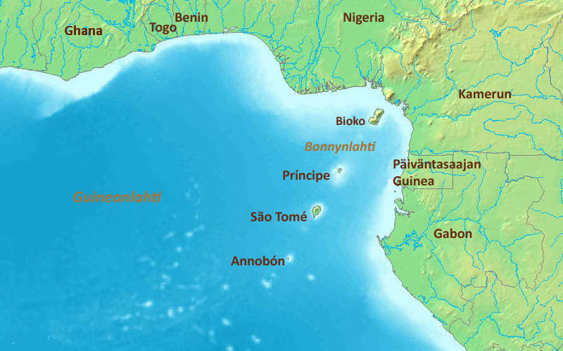 Image:Gulf_of_Guinea_(English).jpg :French : Image:Gulf_of_Guinea-fr.jpg :German : Image:Golf_von_Guinea.jpg